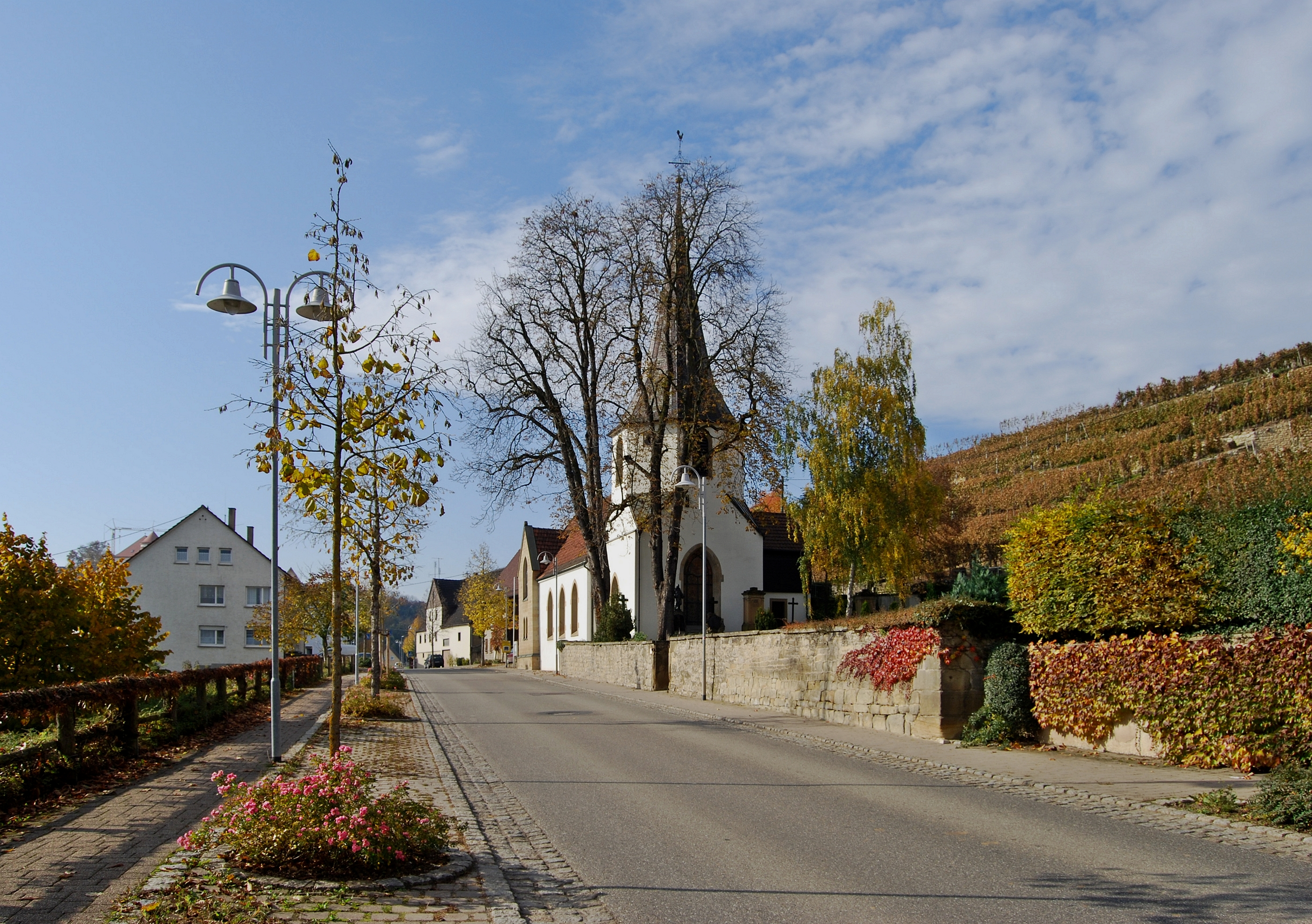 The village of Hohenstein, Baden-Württemberg.